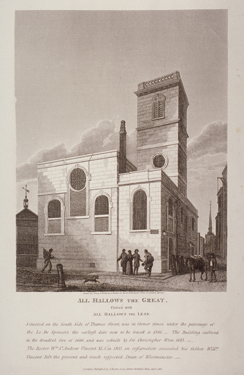 All-Hallows-the-Great, former church in the City of London.